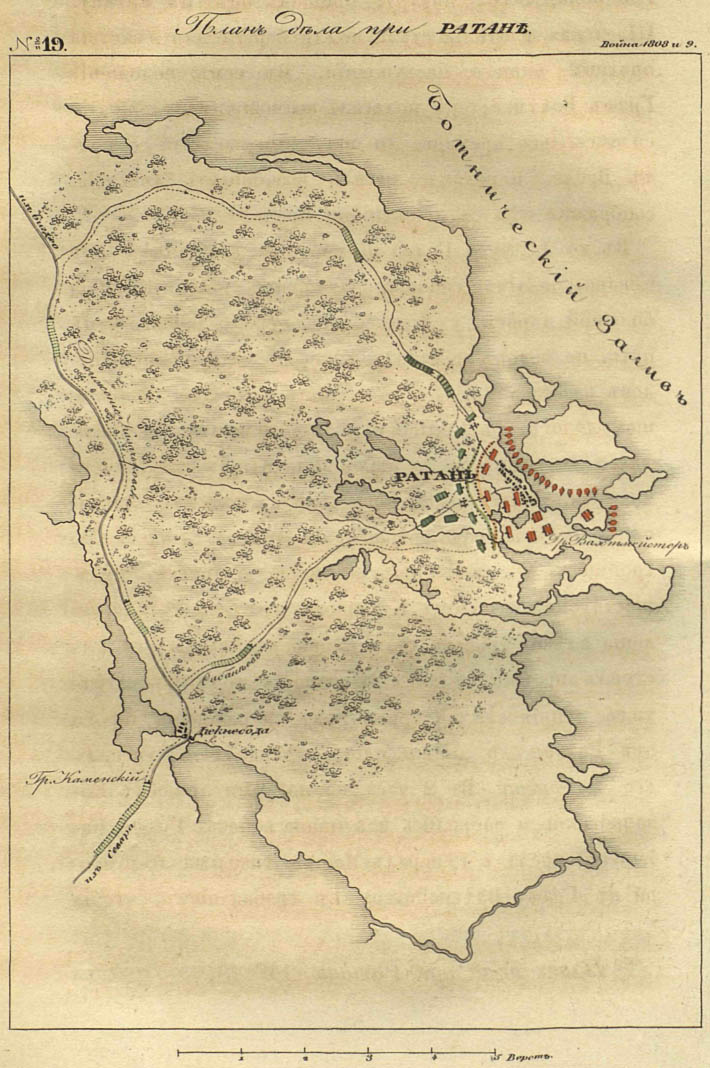 Map of the Battle of Ratan (on russian language)